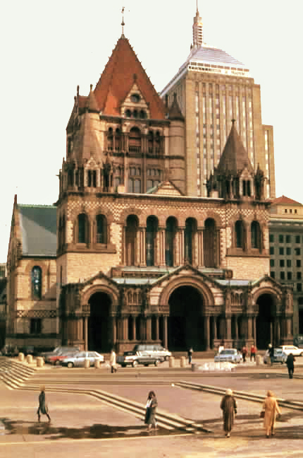 Trinity Church, Copley Square, Boston Henry Hobson Richardson